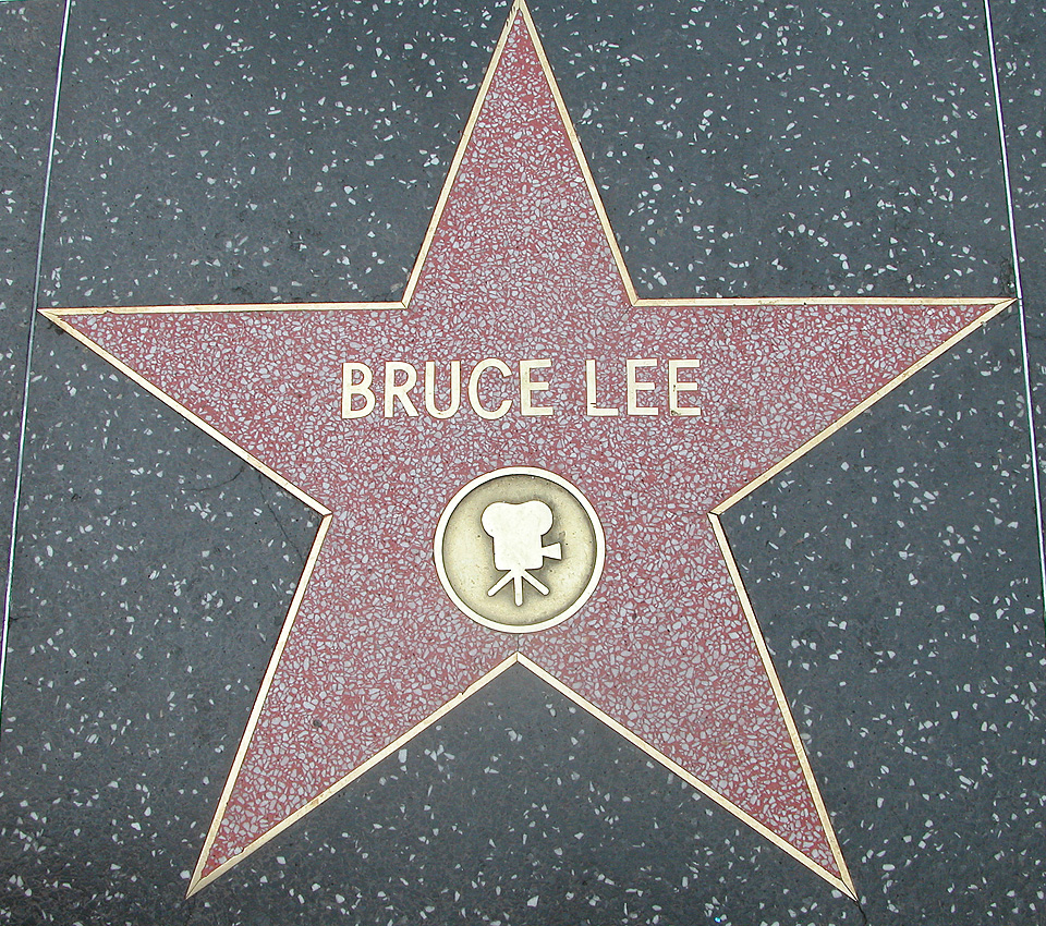 Bruce Lee's star on the Hollywood Walk of Fame, Los Angeles (California)